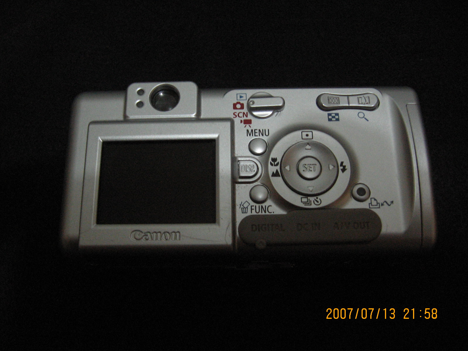 Canon PowerShot A400 digital camera